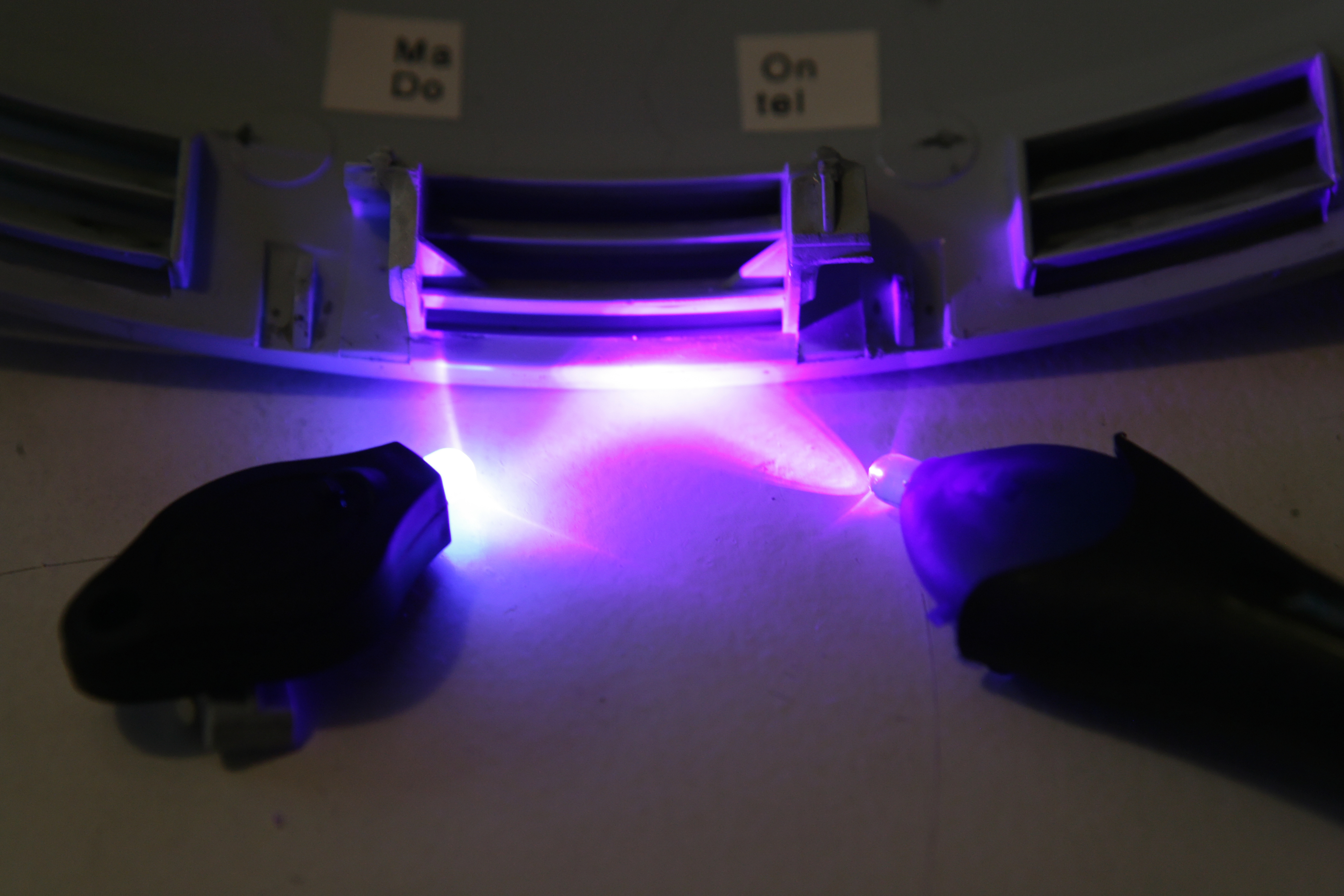 Ultraviolet LEDs are used as cure for UV light sensitive curing glues in the repair and production of glassware, glass furniture, acrylic glass and other plastics. Left the LED light bundled with a Marston-Domsel UV Start repair set, and on the right the UV light from an Ontel Products "5 Second Fix" liquid-plastic welding tool.